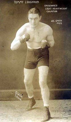 tommy loughran, american boxer